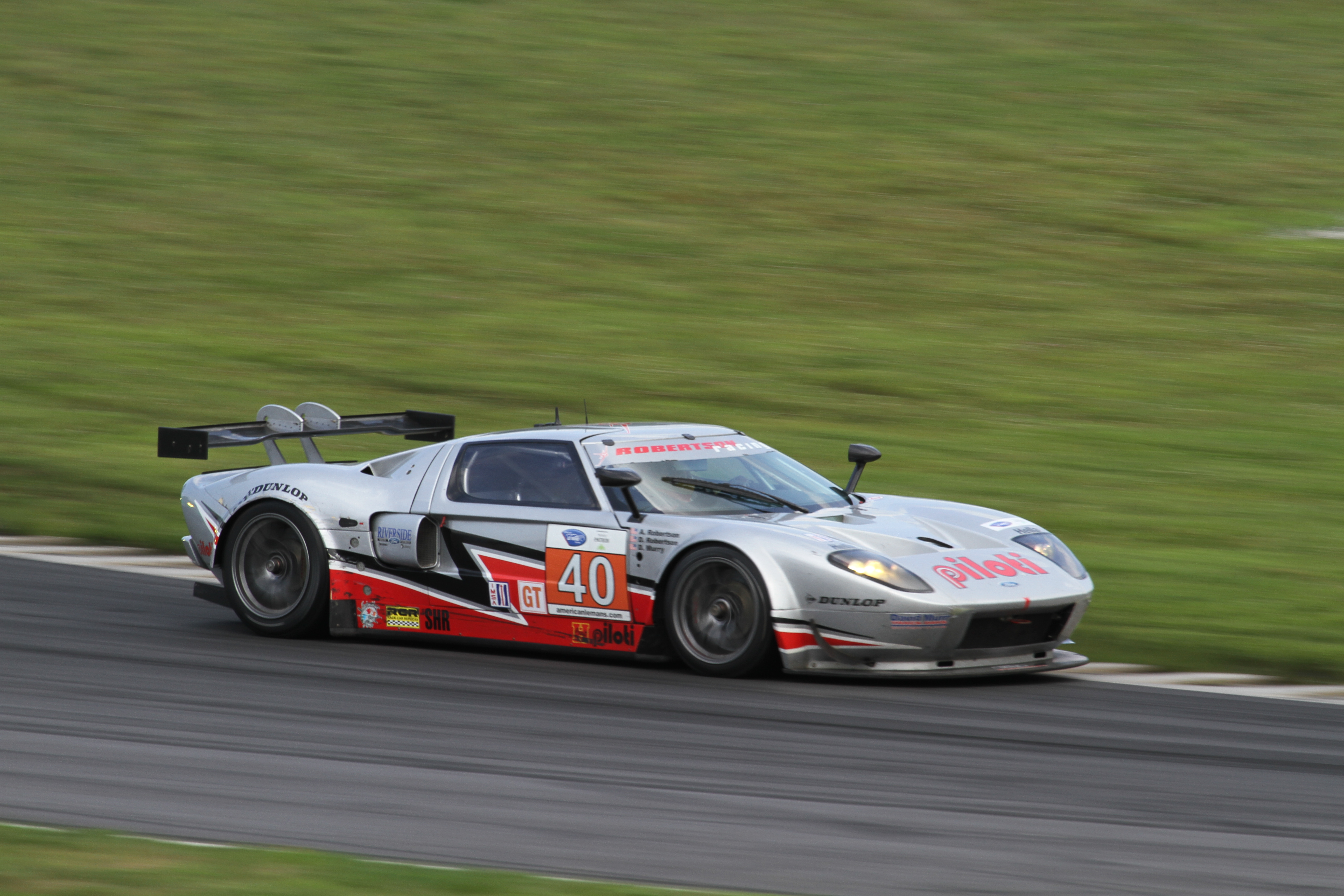 During the 2010 Northeast Grand Prix.